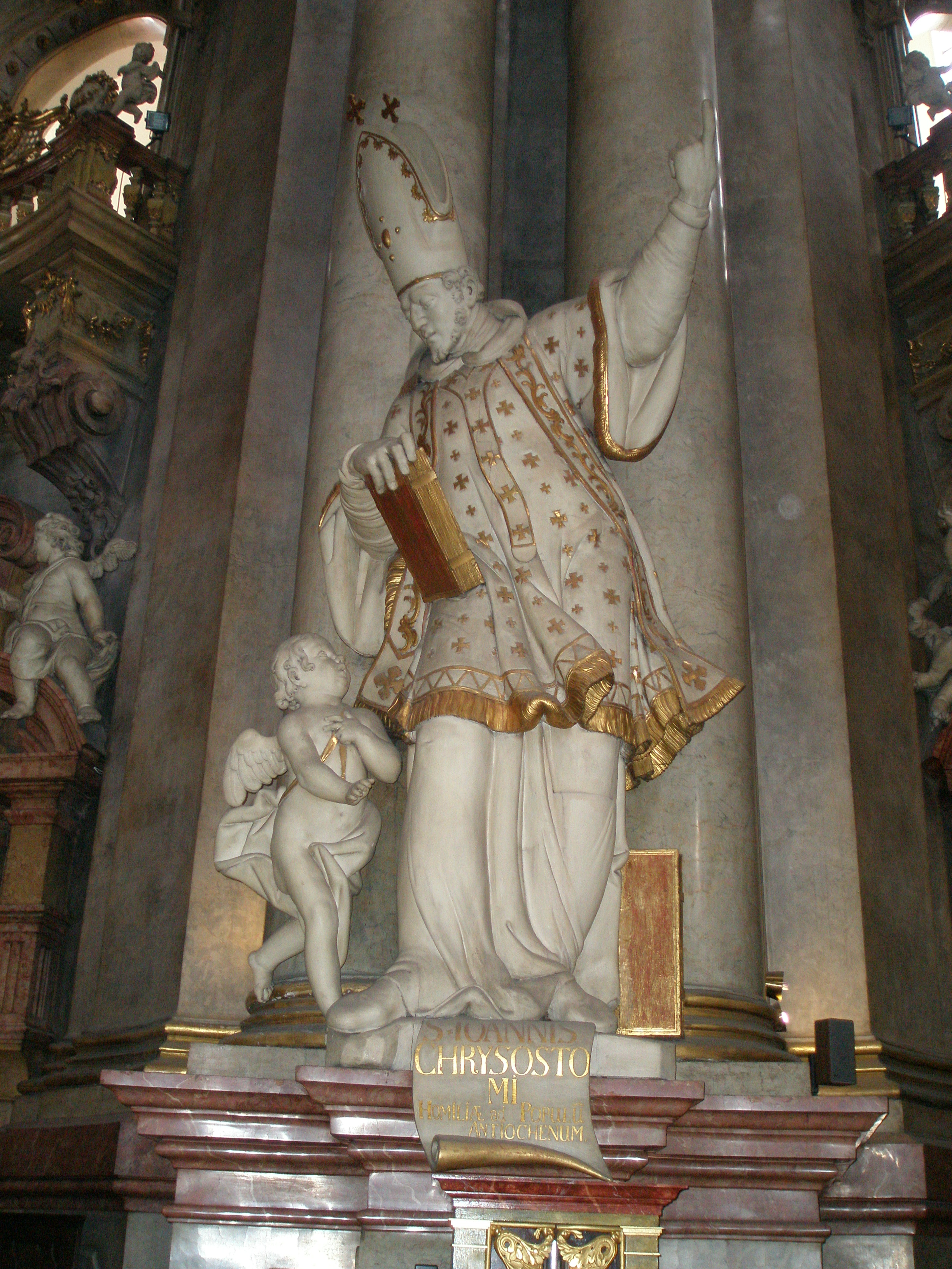 Statue of St. John Chrysostom, St. Nicolas Church, Mala Strana, Prague